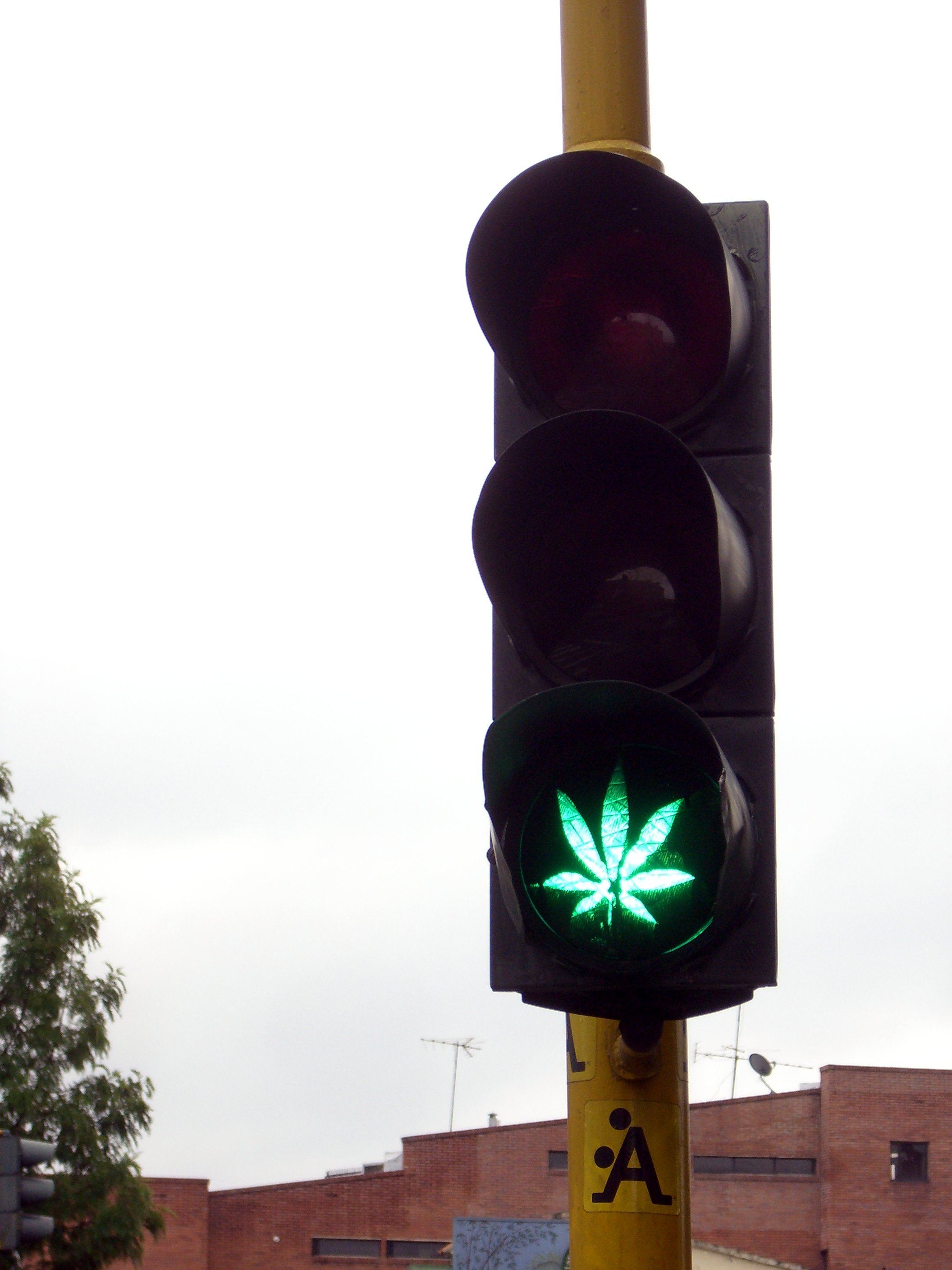 Street light vandalism in Bogotá, Colombia